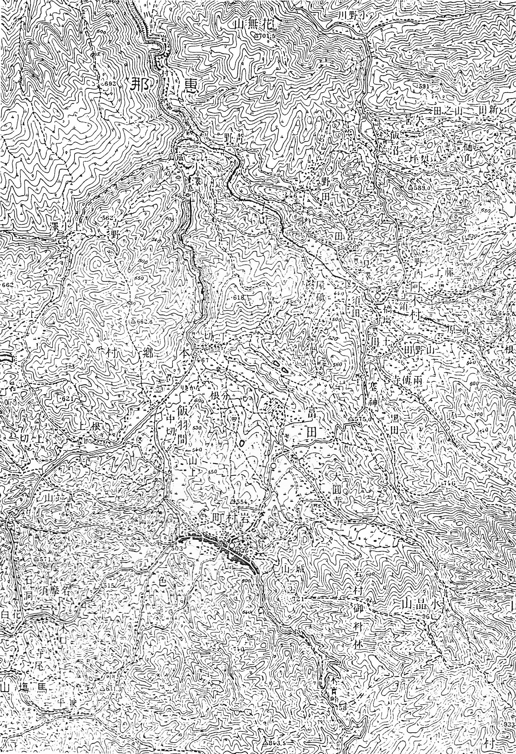 Map of Iwamura